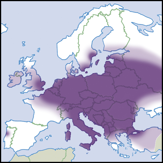 Anodonta cygnea (Linnæus, 1758). Distributional range in Europe, scientific state of knowledge of 2012. Source description in English. Light colour indicated rare occurrences or regions where the species could eventually be expected to occur. Dark colour indicated relatively reliable occurrences, as well as regions where the species was expected to occur, and where the species was not known to be extremely rare. Dark colour indications were not necessarily based on published records Species summary in AnimalBase